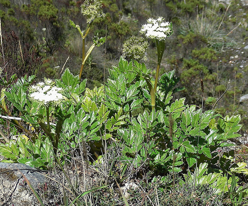 Also known as Zanahoria del Monte in its range in the high mountains from Colombia to Peru. Photo from Los Nevados Park, Colombia. In context at